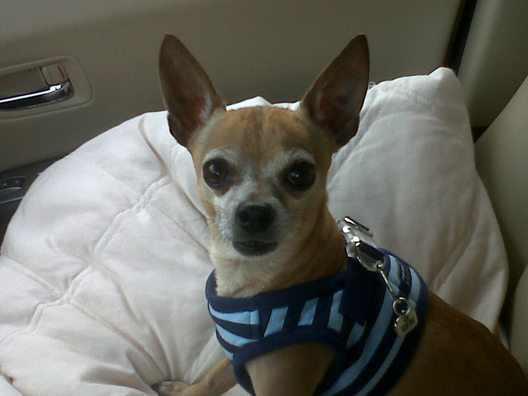 Face of a Chihuahua Dog